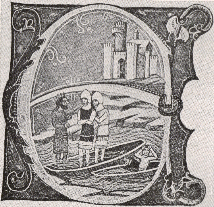 Oldest known image of Bratislava Castle